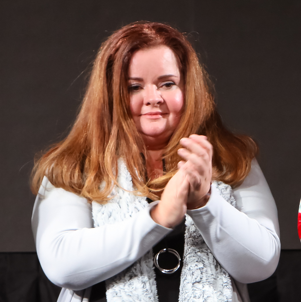 The winners of the 2018 Disobedience Awards. From left to right, Sherry Marts, BethAnn McLaughlin, and Tarana Burke. Credit: Jon Tadiello Selected images from the 2018 Disobedience Award event at the MIT Media Lab. Please visit for even more photos.